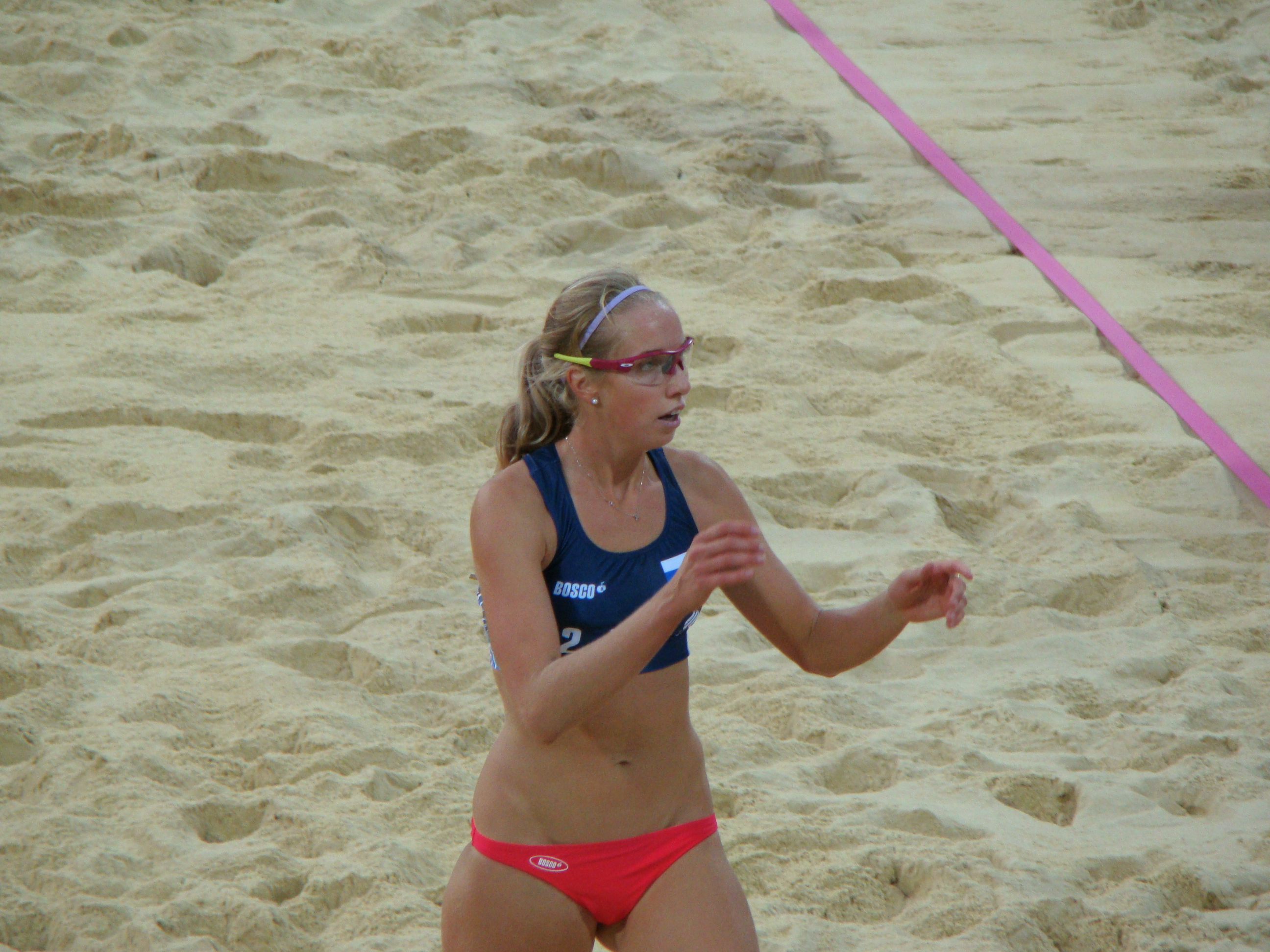 Evgenia Ukolova competing against the Canadian team in the 2012 Summer Olympics.